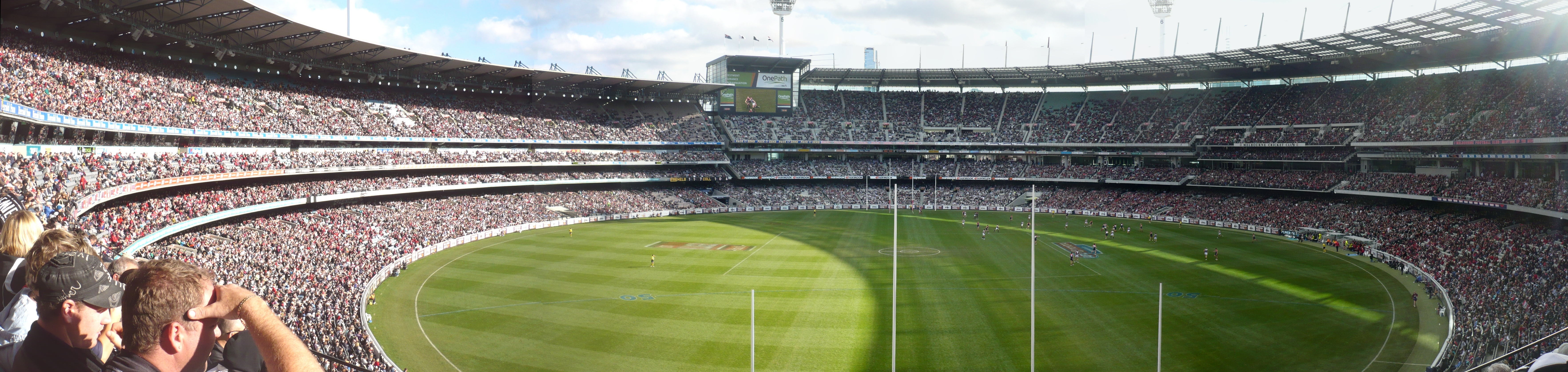 Queen's Birthday Holiday clash